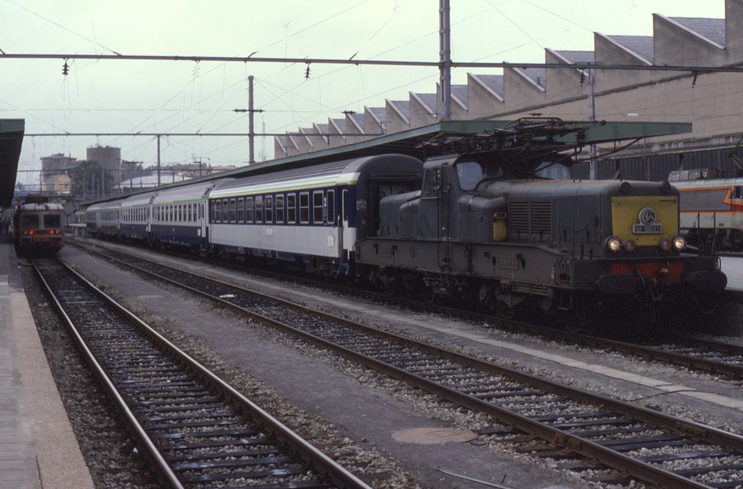 Unidentified working at Luxembourg on 11 September 1987. 5 SNCF couchette cars are seen in the platform with "Monocabine" loco BB13029.